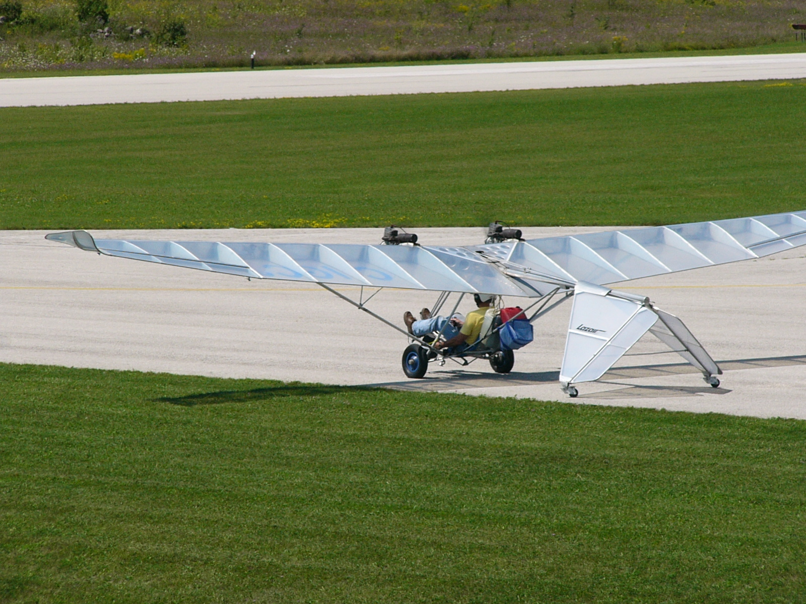 I took this photo of a Lazair Series III